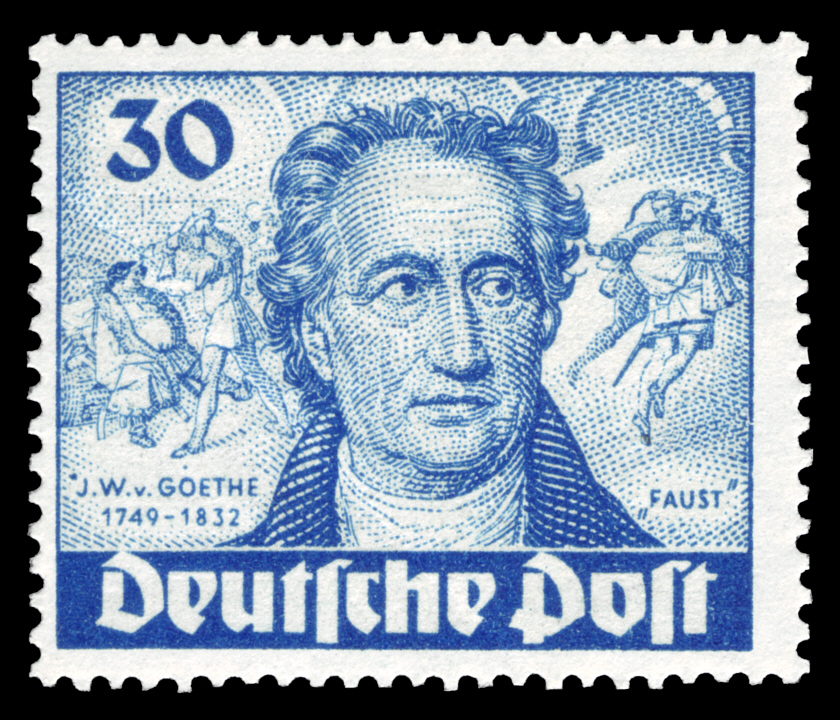 200. Geburtstag von Johann Wolfgang von Goethe (1749–1832)